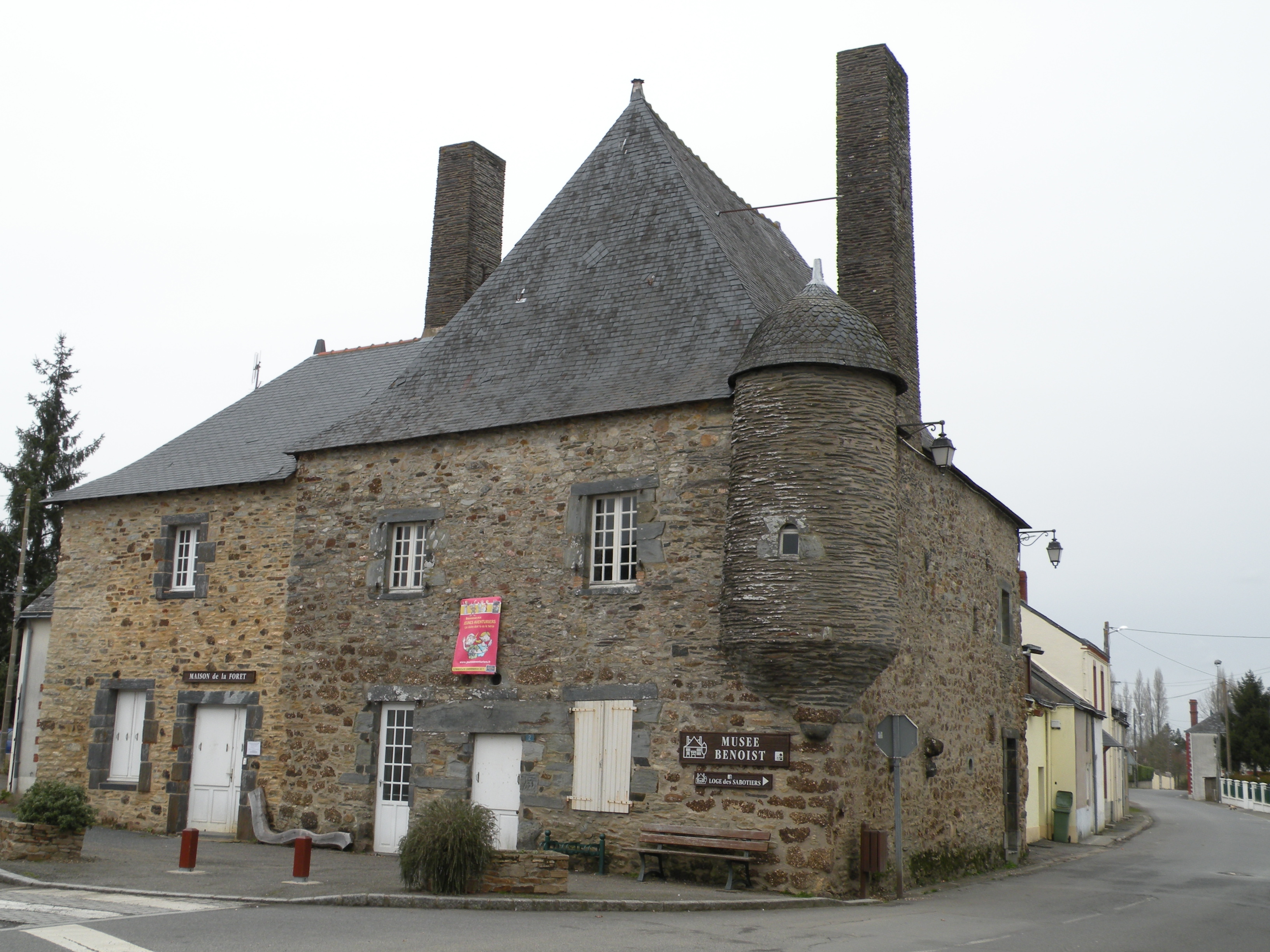 Benoist museum in Le Gâvre